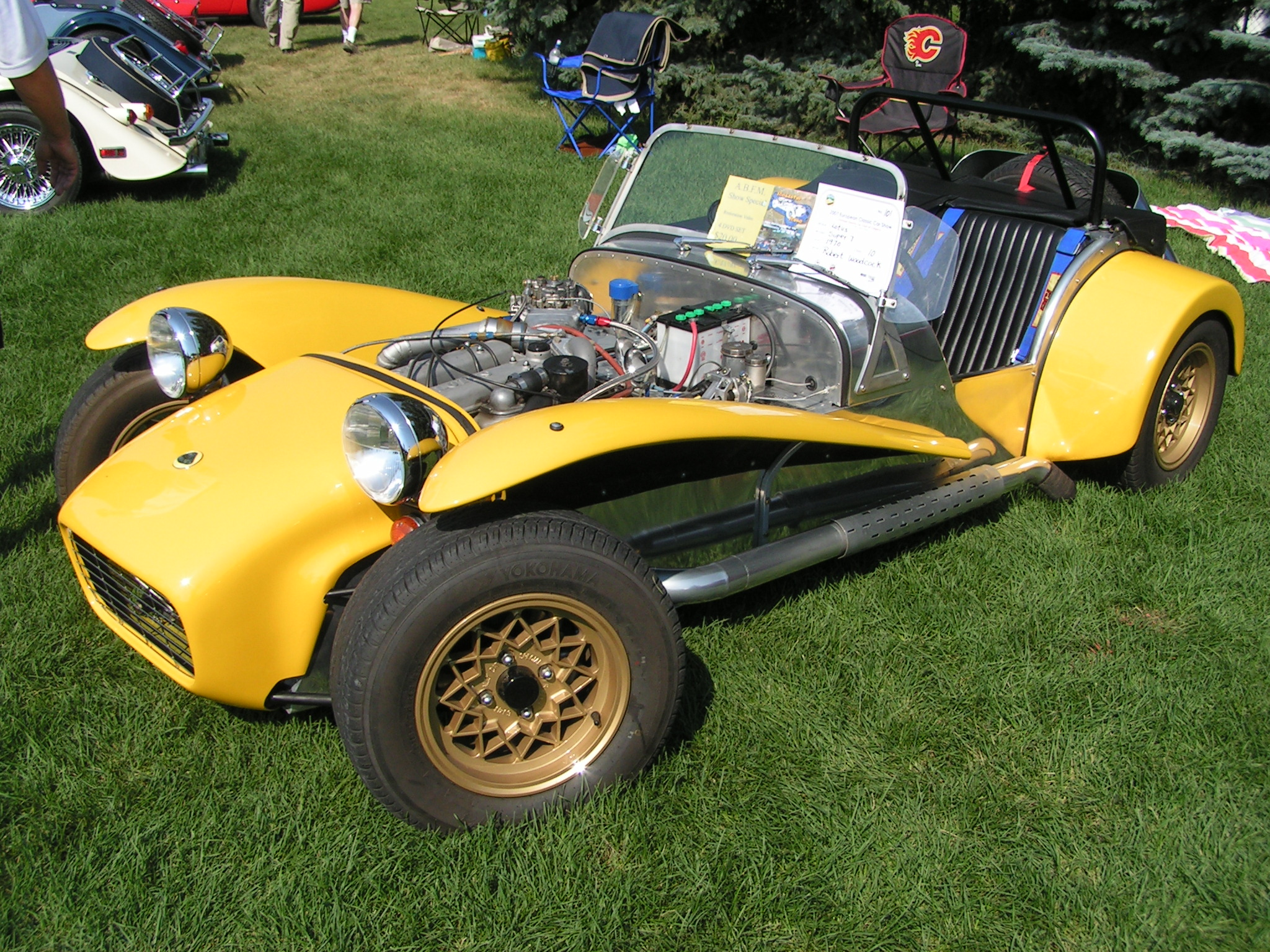 A series III Lotus Seven. This one has a turbo'd twin cam engine.1970 Lotus Seven